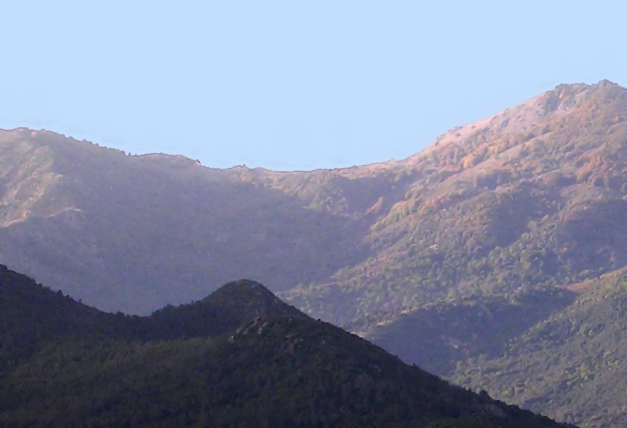 Pianu Maio San Cervone Rusiumaio, Rusiu, Castagniccia, Corsica